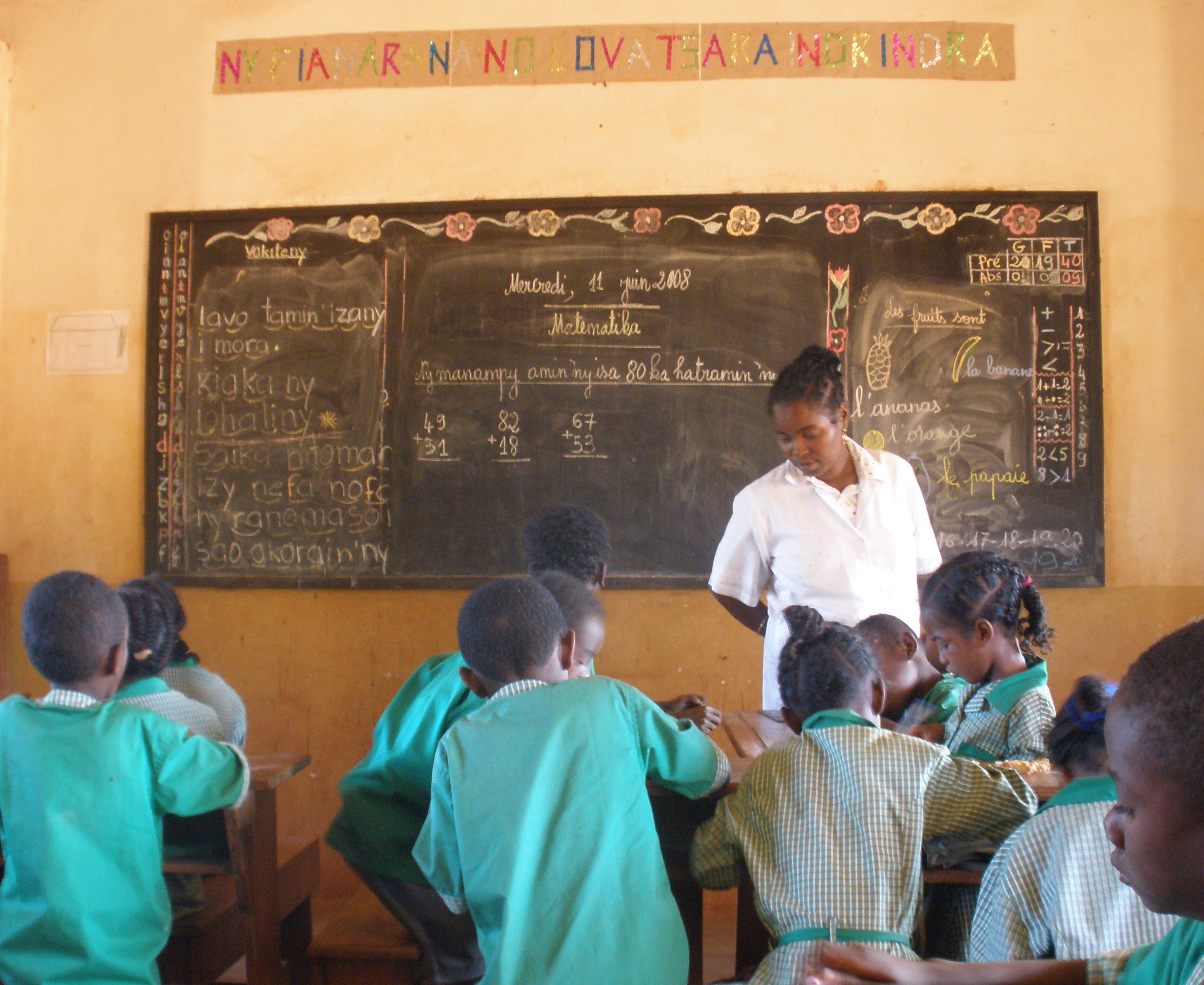 Public primary school (EPP) outside Diego-Suarez (Antsiranana), Madagascar